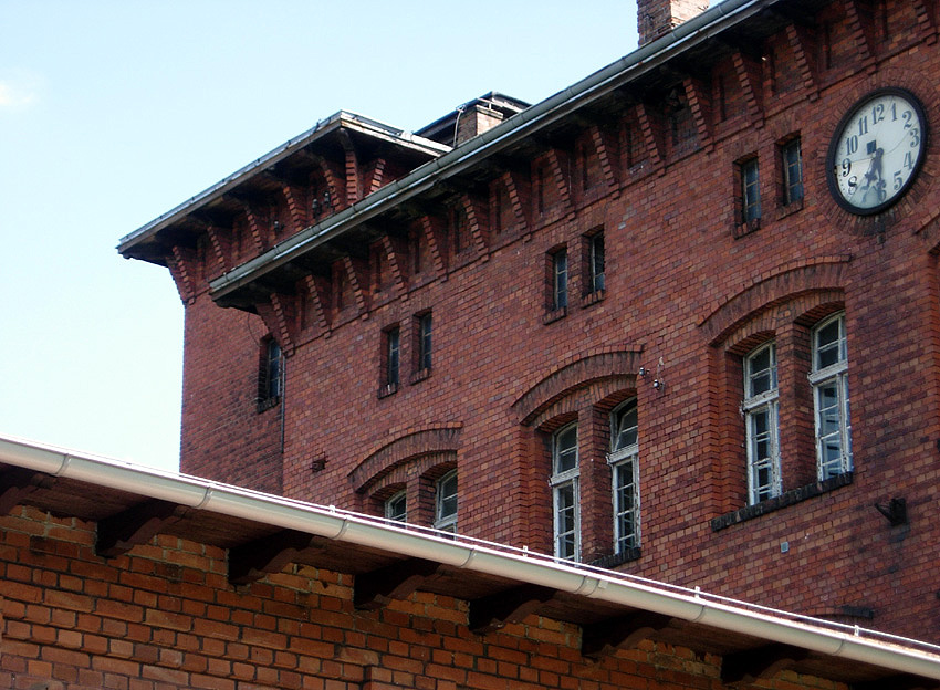 A neogothic building with a clock on the area of mental hospital in Lubliniec, Poland.